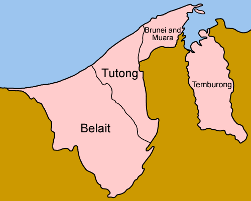 Map of the districts of Brunei in English. Made by User:Golbez.